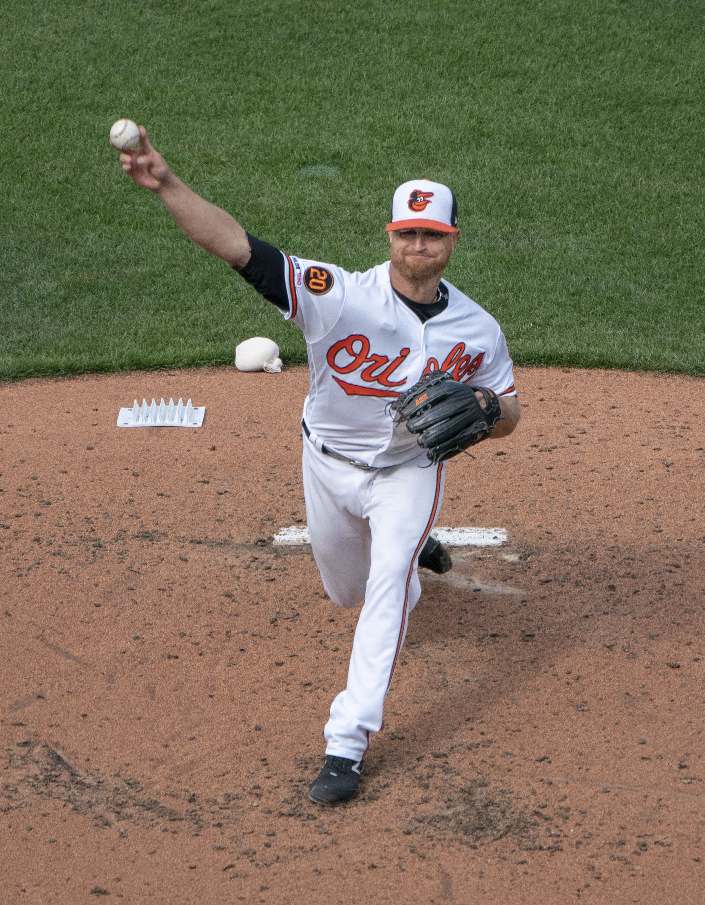 Cobb pitching for the Orioles in 2019 - Yankees at Orioles 4/4/19